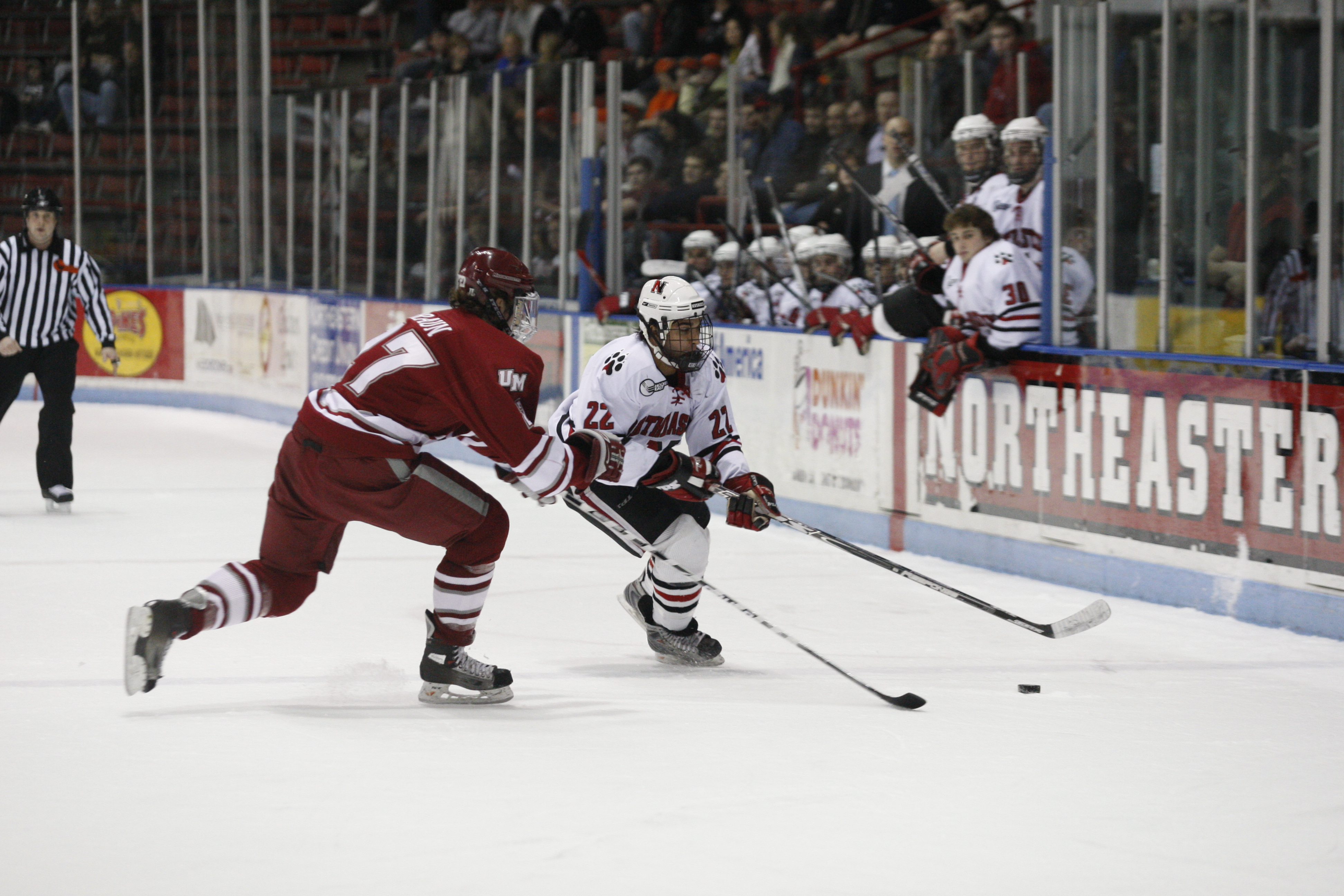 The University of Massachusetts Amherst takes on the Northeastern Huskies at Matthews Arena in Boston, Massachusetts